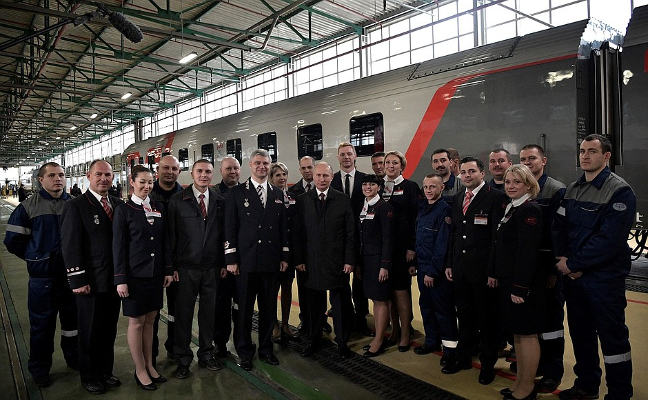 RZD personnel during a visit to a maintenance depot at the Moscow-Kievskaya railway station